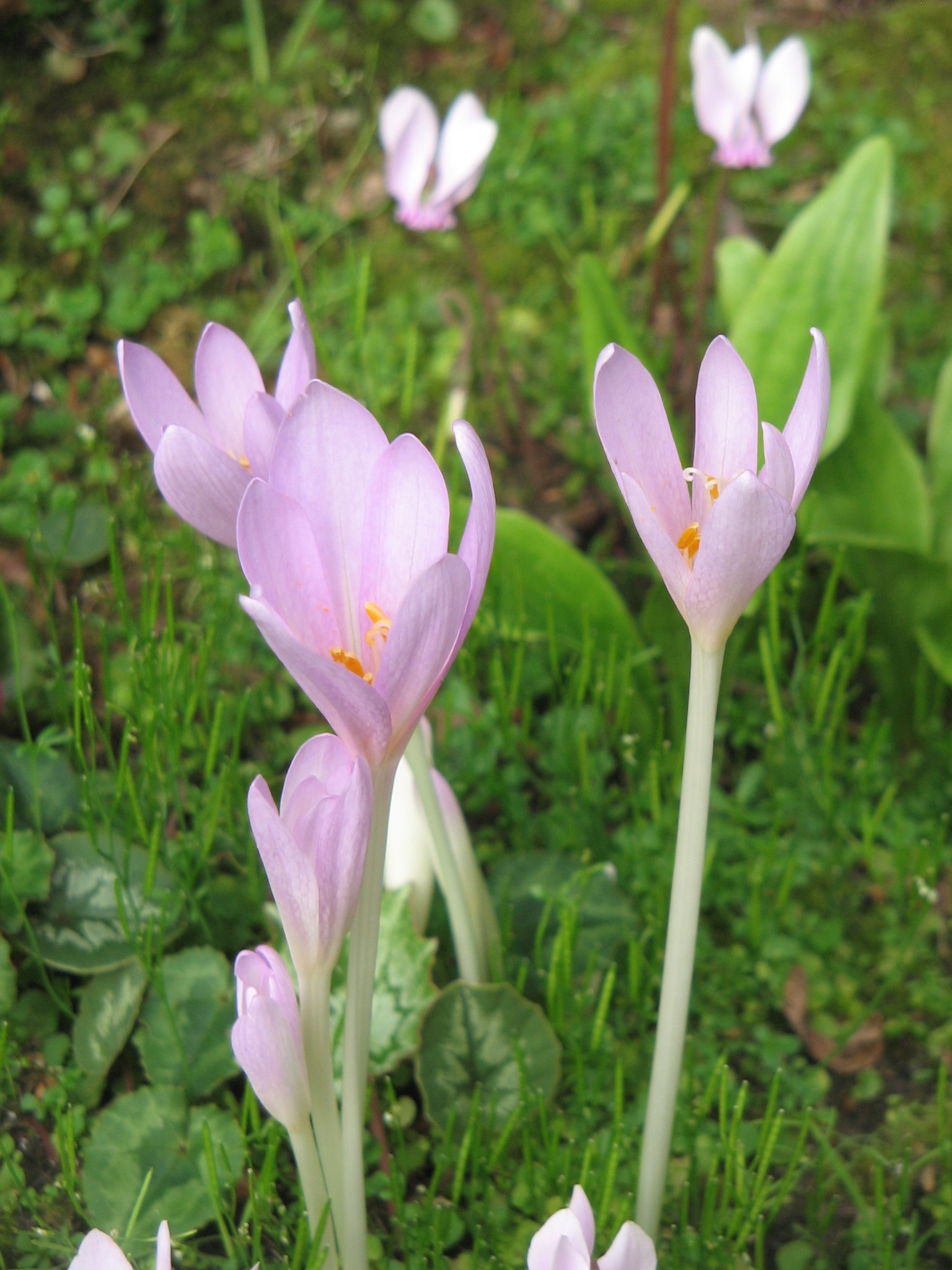 Colchicum autumnale (meadow saffron)